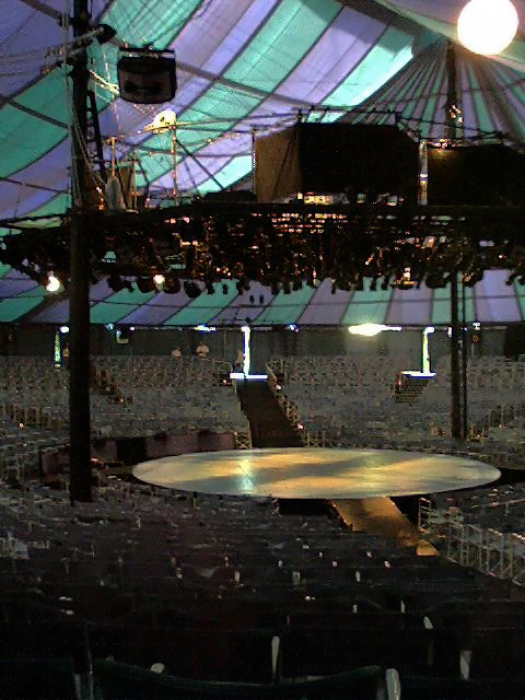 Sacramento Music Cicus Stage 2001 Submited by photographer